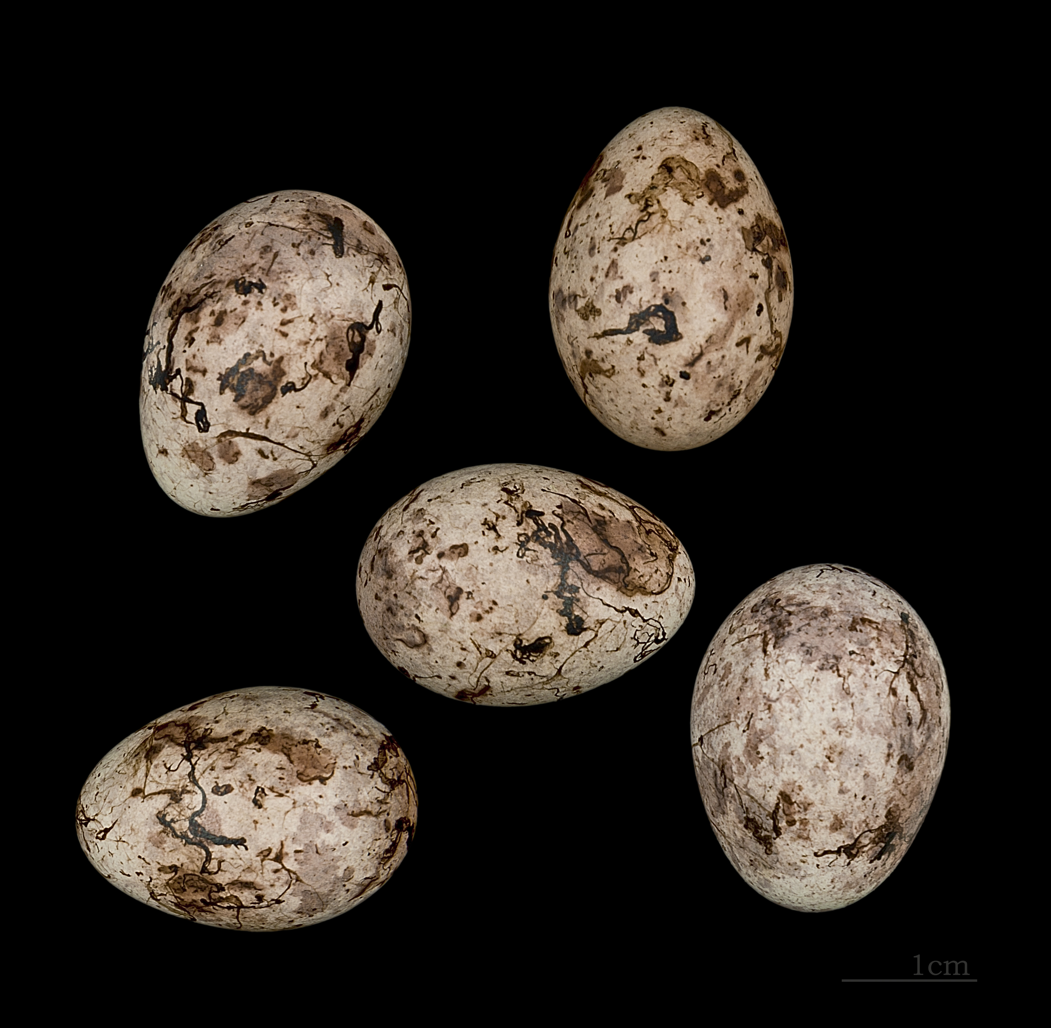 Egg of Corn Bunting. Collection of René de Naurois / Jacques Perrin de Brichambaut.